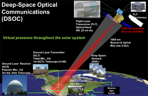 Scheme of the architecture for the planned Deep Space Optical Communications (DSOC) prototype to be flown on the Psyche mission.